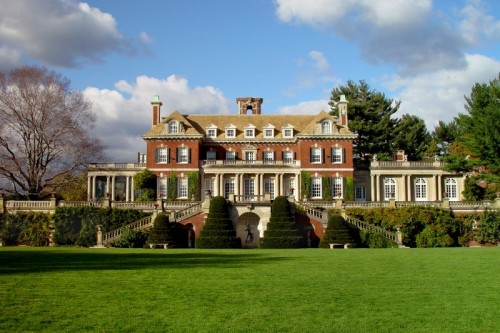 Phipps Estate, Mansion of Old Westbury Gardens and Mansion in Old Westbury, NY 2011